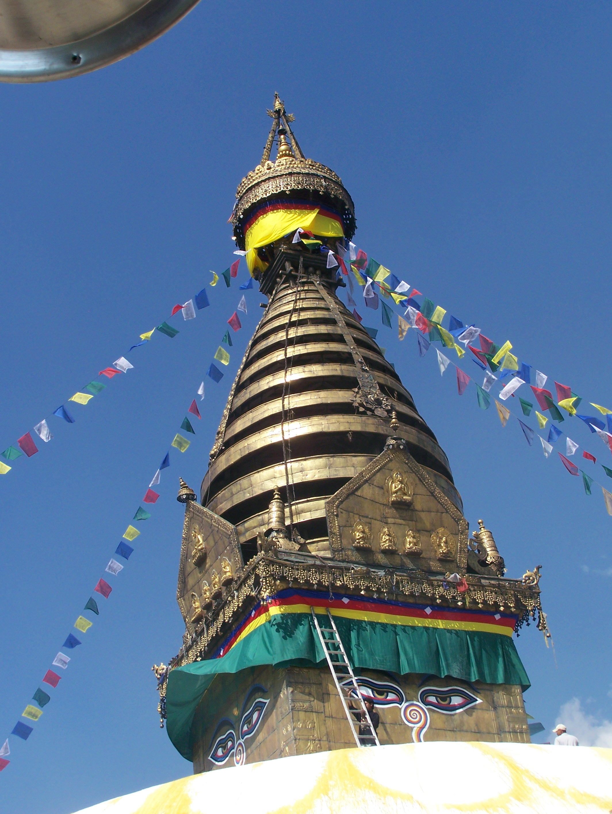 Closeup of Swayambhunath temple in Nepal.